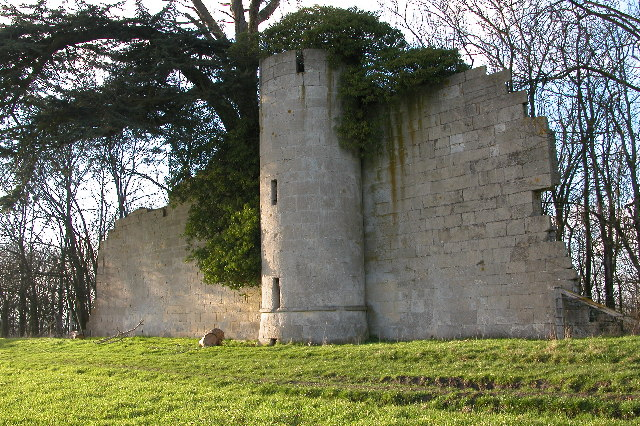 Castle folly, Croome. This folly is one of a number of follies located around the Croome landscape park. The park was designed by 'Capability' Brown in the 18th century, much of the park is now in the care of the National Trust, however, this folly overlooking the Old Park at Pirton is on private land with a public footpath passing nearby.